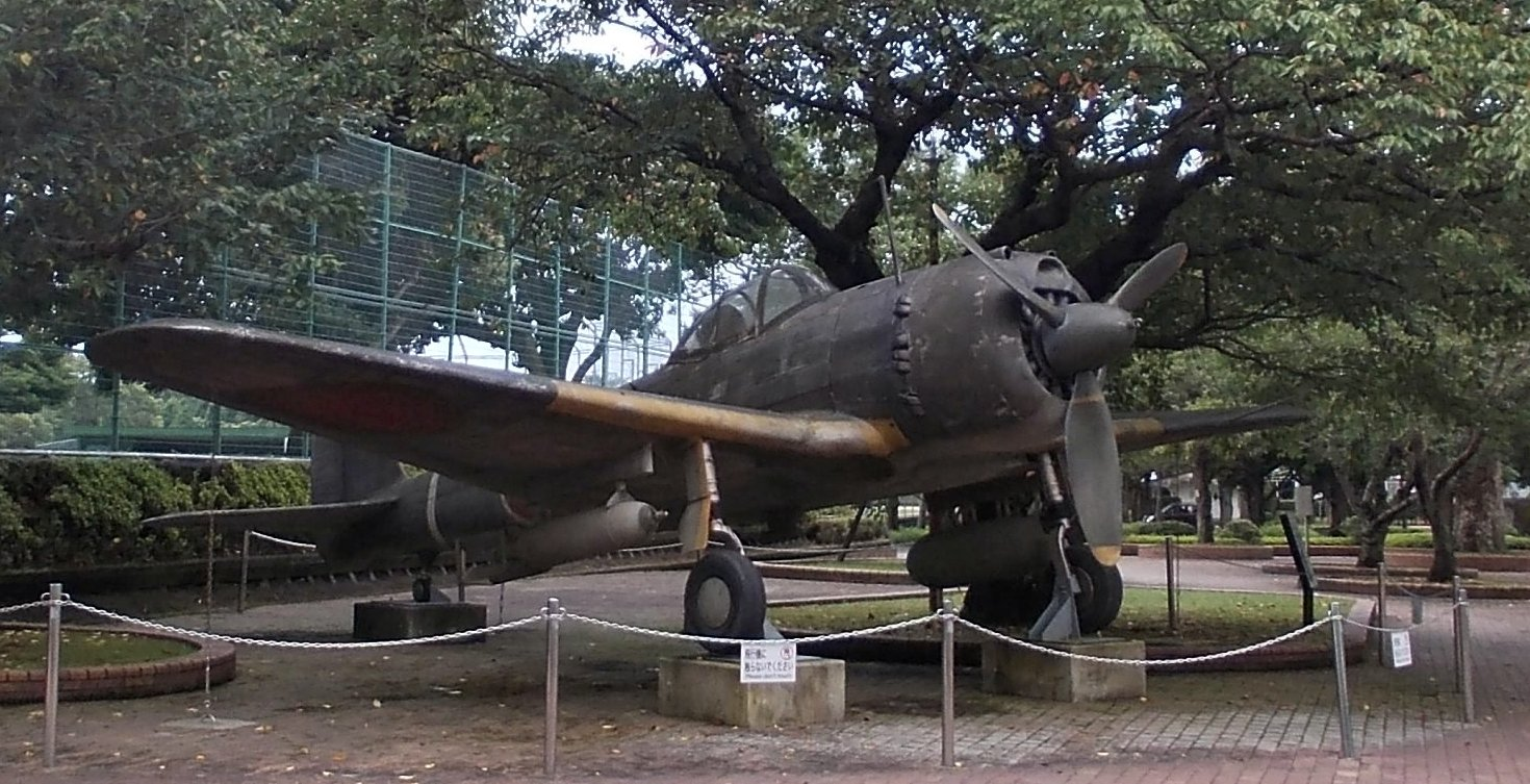 Chiran Peace Museum for Kamikaze Pilots, Minamikyushu, Kagoshima, Japan